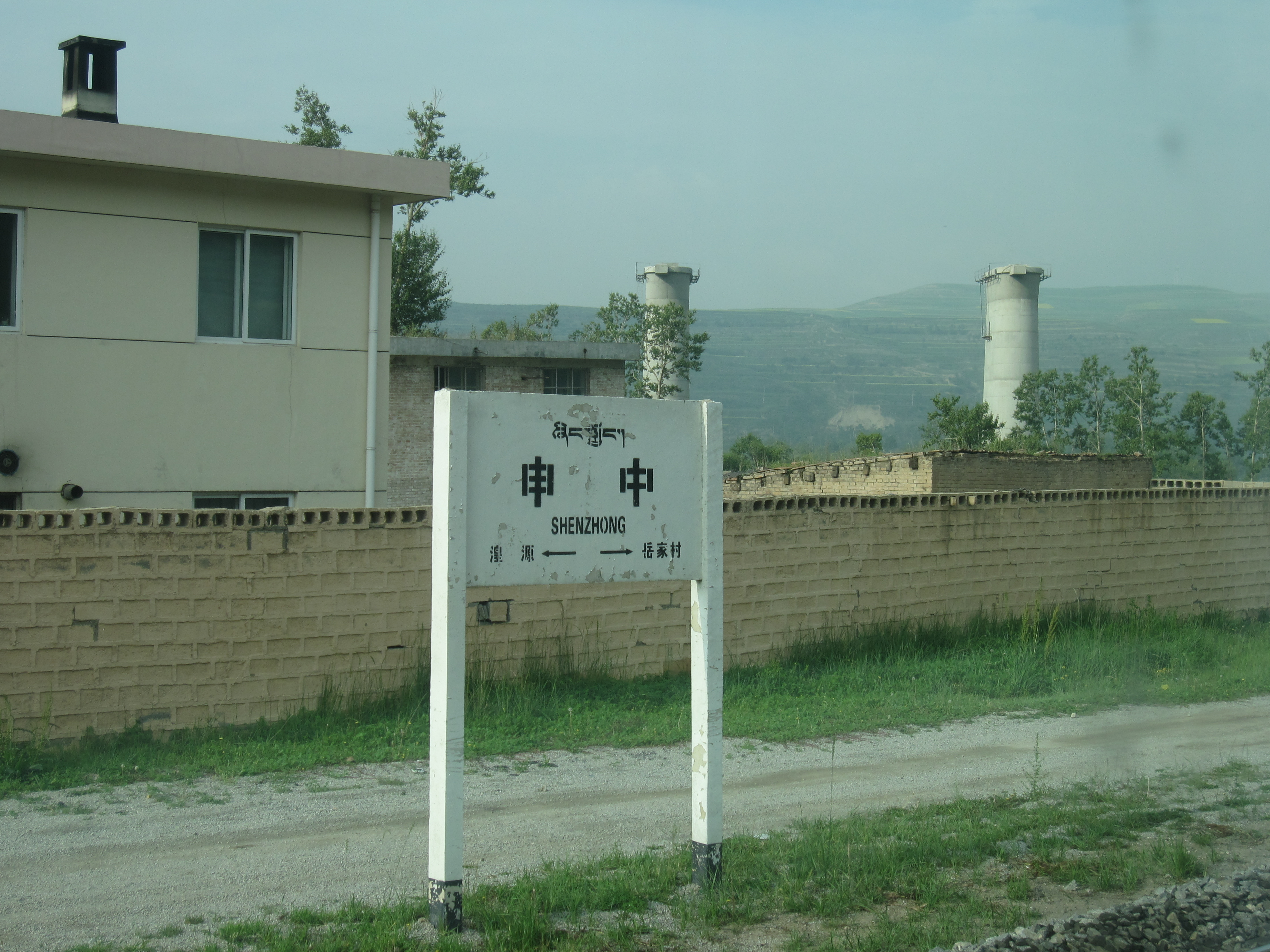 Passing the railway station in Shenzhong, about 70-80 km west of Xining. 申中站